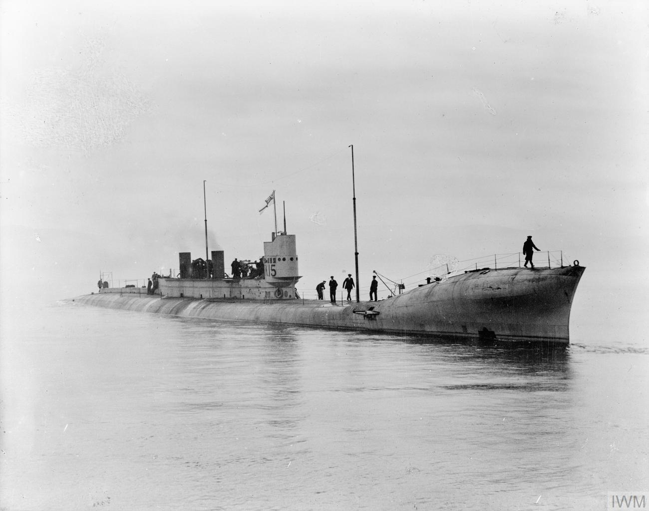 Photograph of British submarine K 15.